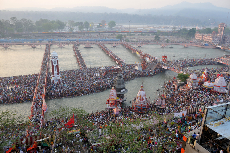 Haridwar April 14th 2010: Pilgrims gather at the third Shahi Snan in Har ki Pauri to take the Royal Bath in the Ganges. Video still from the documentary "Amrit Nectar of Immortality"